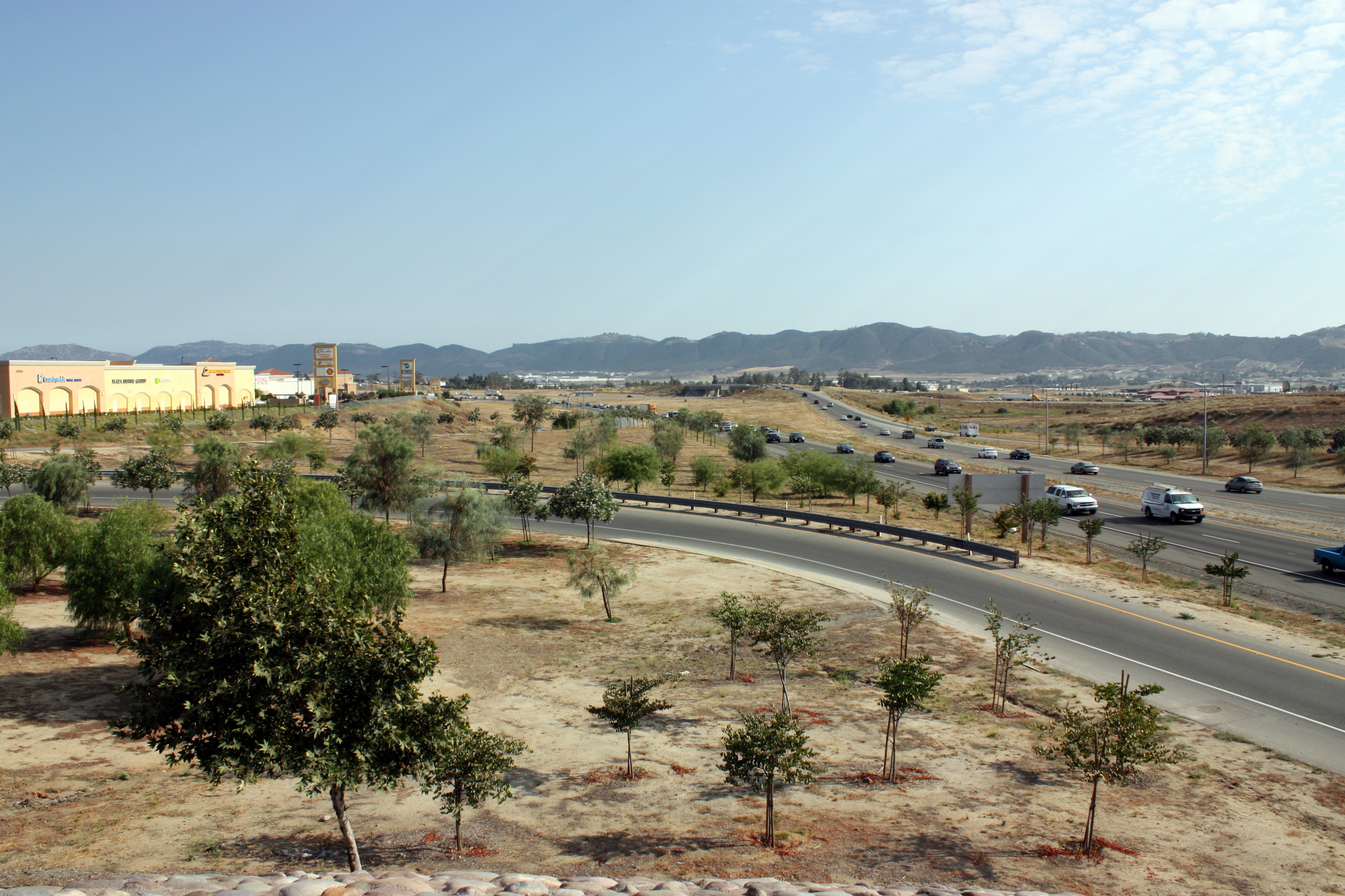 The I-15 / I-215 Junction in Murrieta, the southern terminus of I-215